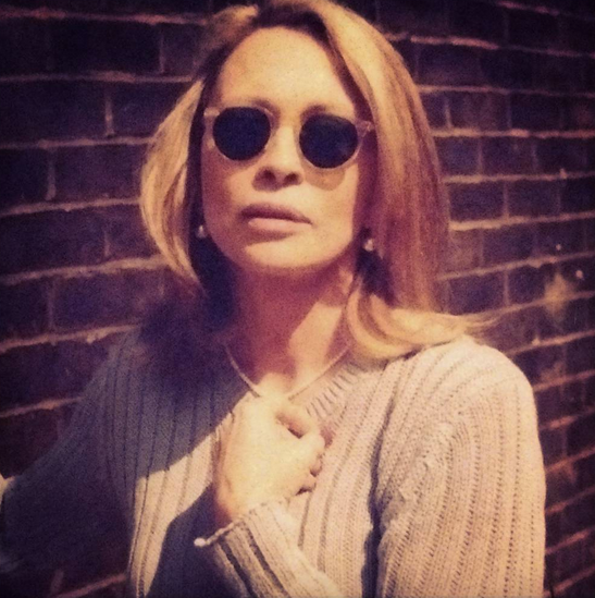 Faye Dunaway. London, 1996.